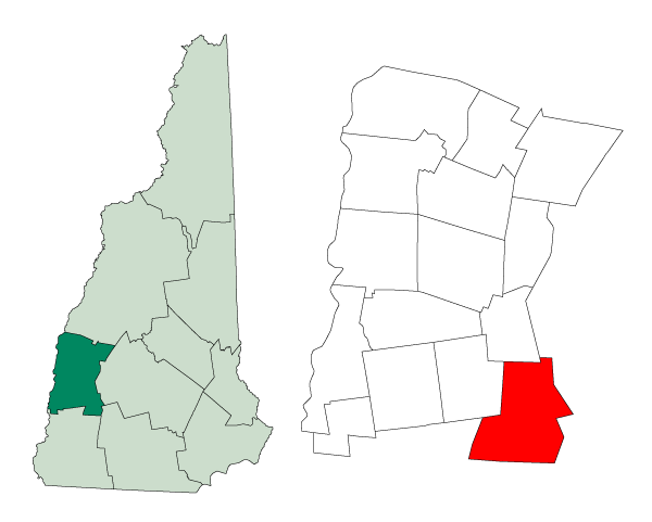 Map of a municipality in Sullivan County, New Hampshire